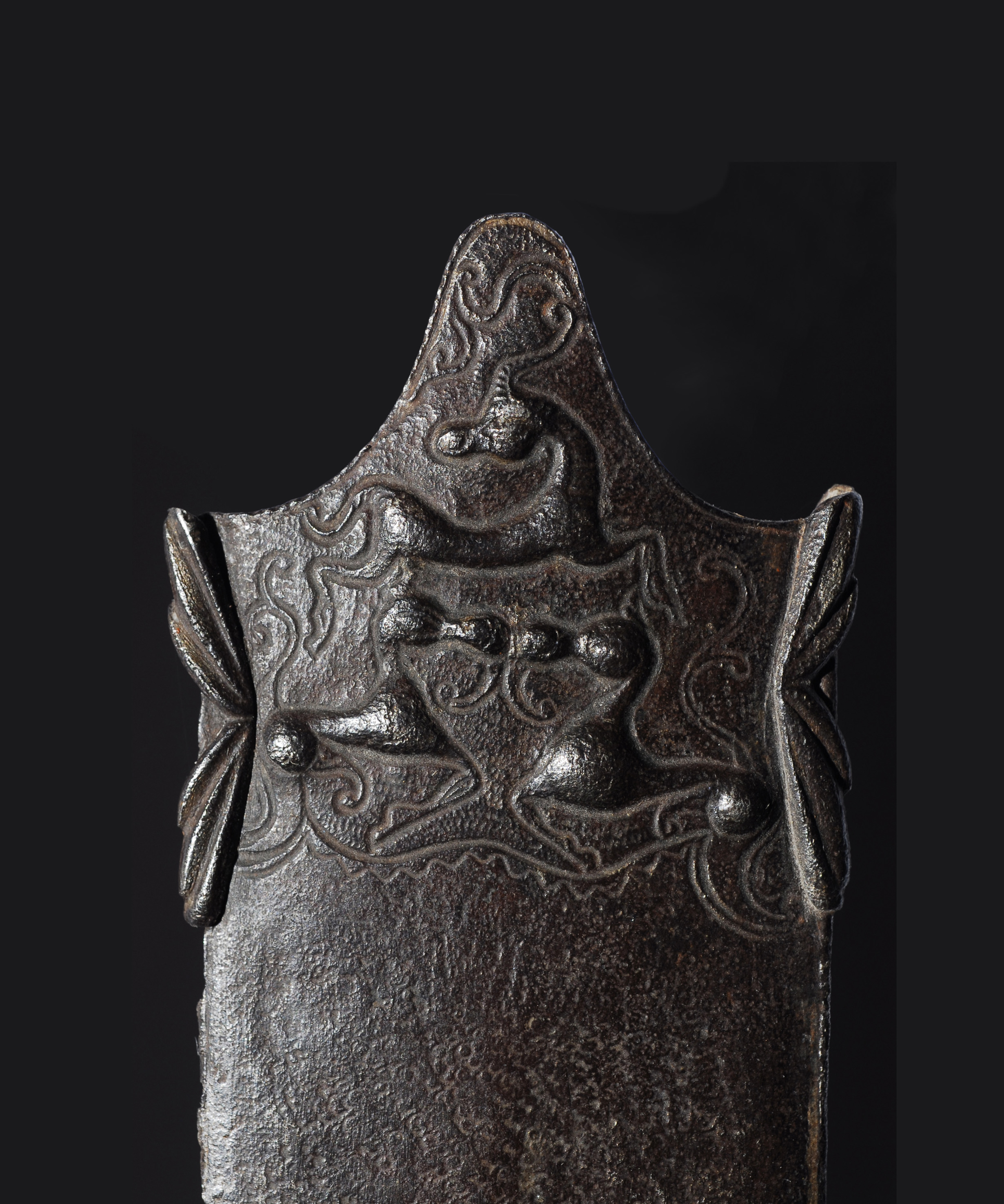 Sheath of a celtic iron sword. Middle La Tène (300 -100 B. C.), La Tène (Neuchâtel). N° inv. MAR-LT-4.Picture by J. Roethlisberger / Laténium.